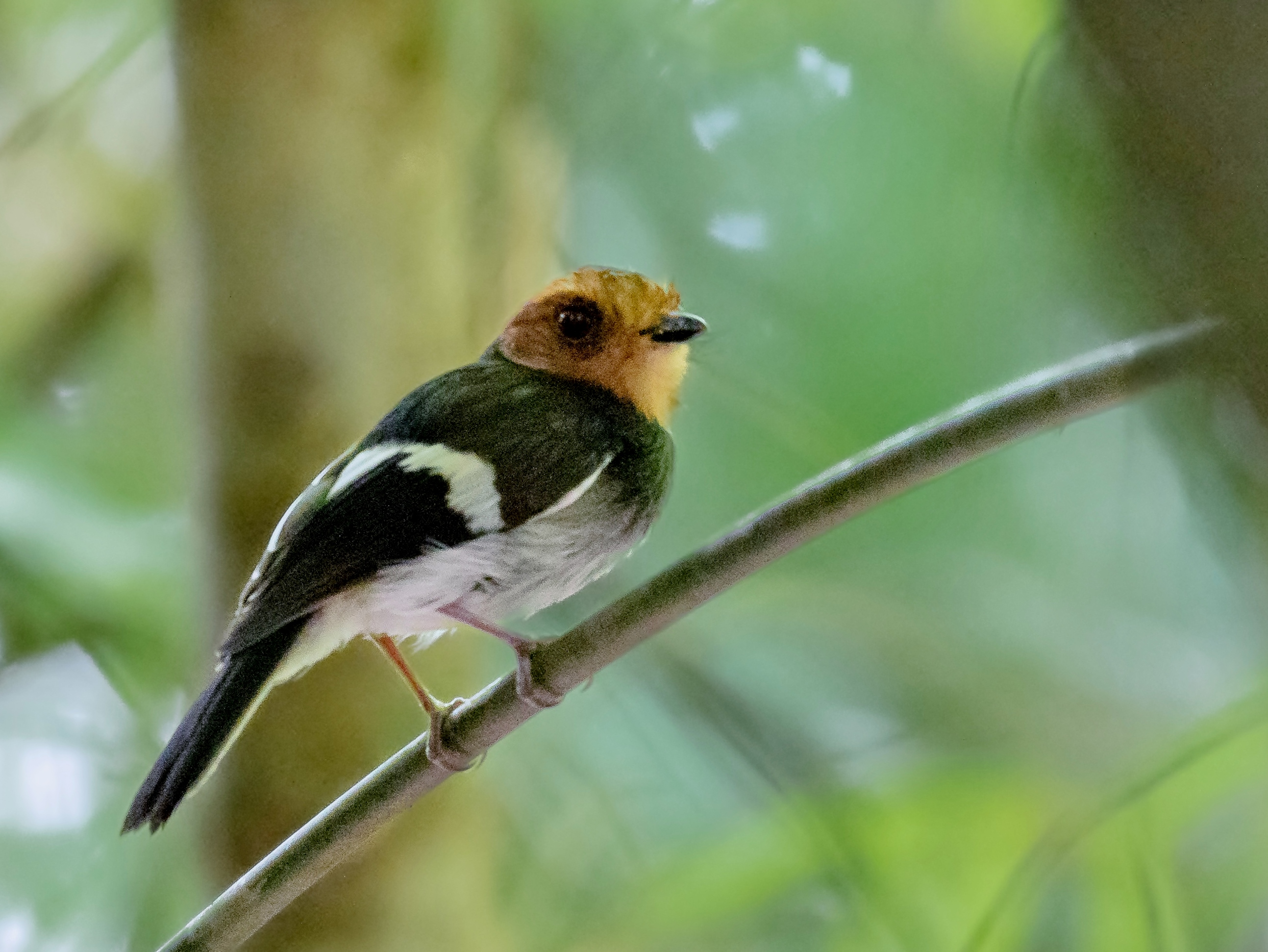 Black-chested Tyrant (male), Parauapebas, Pará, Brazil